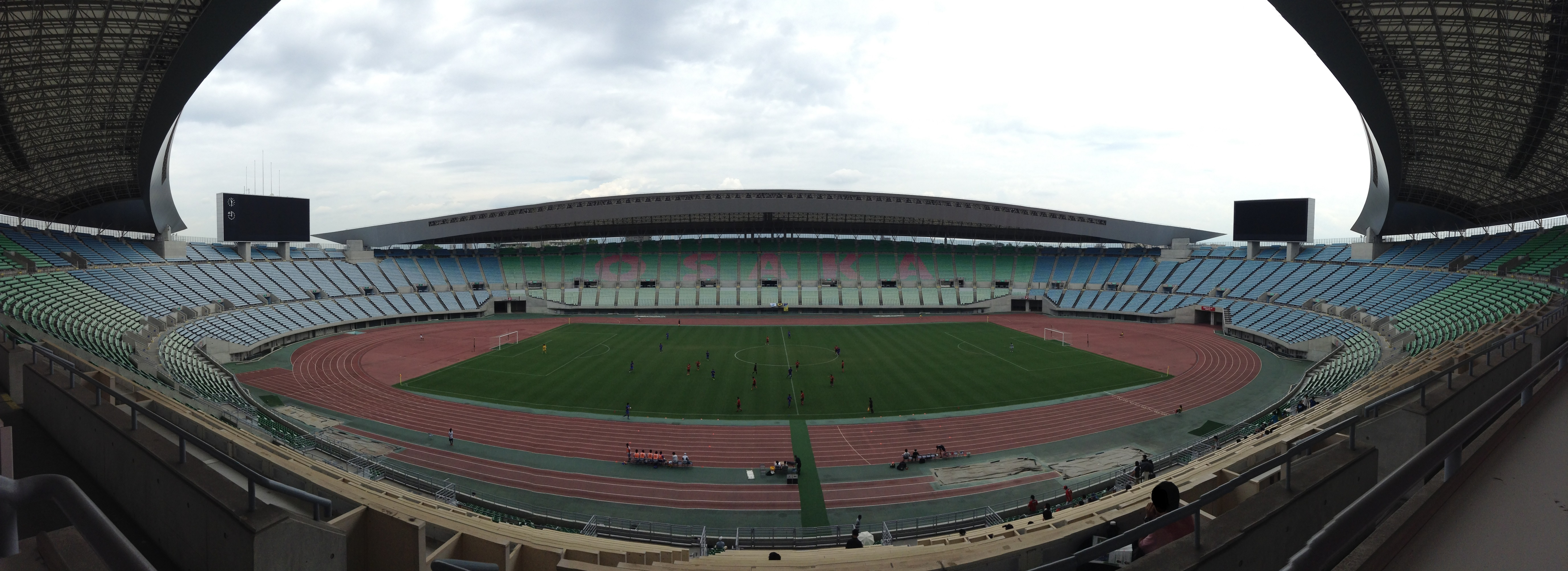 The panoramic photograph of Nagai Stadium（The regular-season game of Kansai Soccer League, 14 July, 2013）.